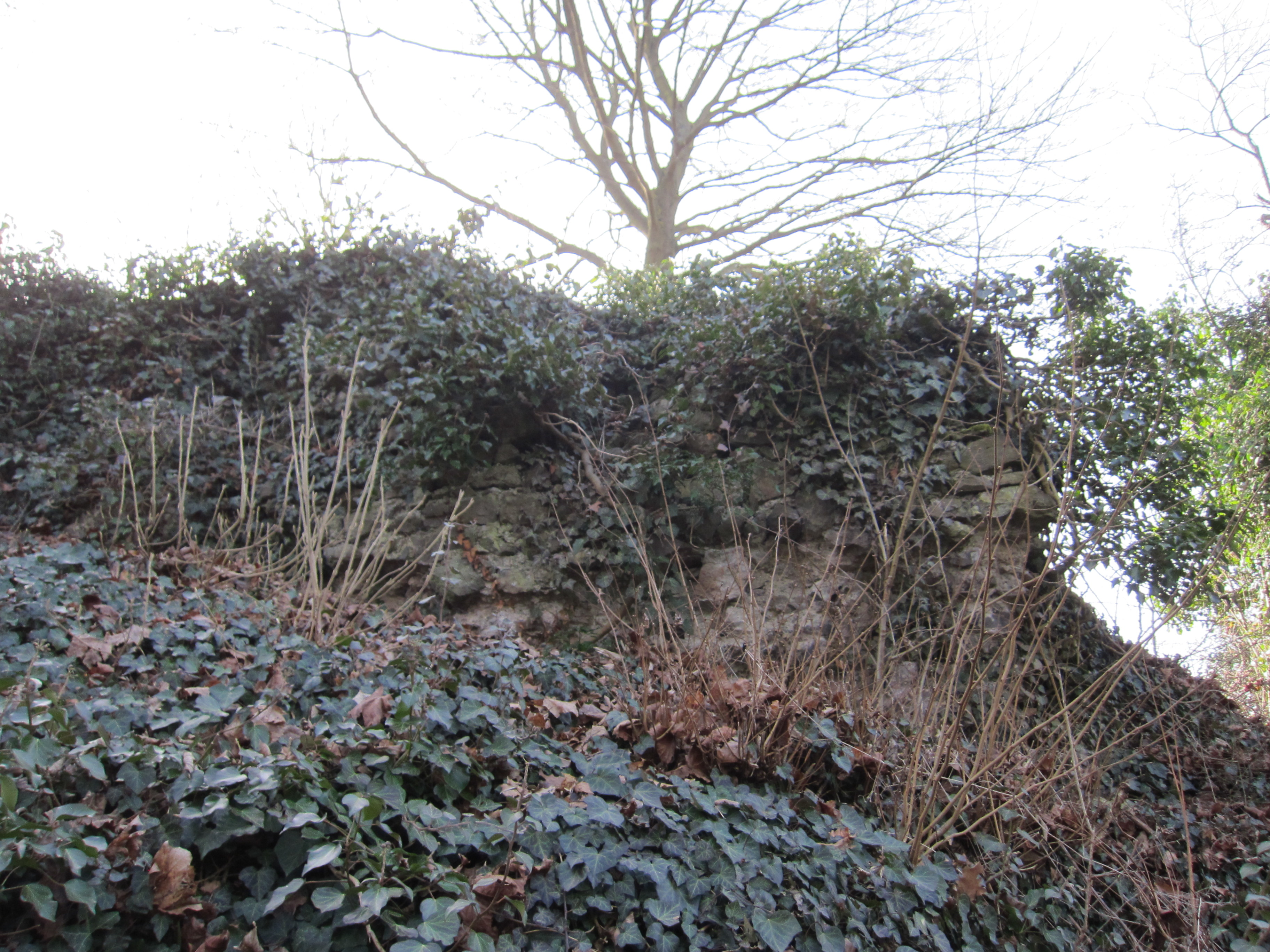 Höhingen Castle, wall at the western side